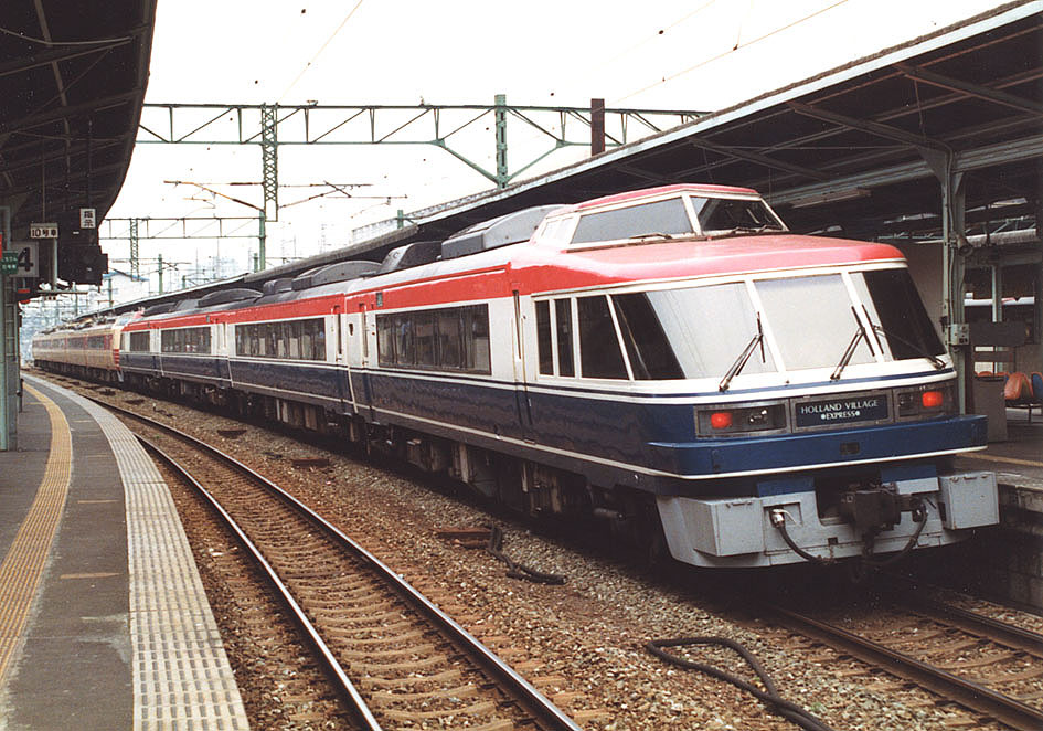 JR Kyushu KiHa 183-1000 "Holland Village Express" DMU at Kokura station running coupled with a 485 series EMU, taken around 1990